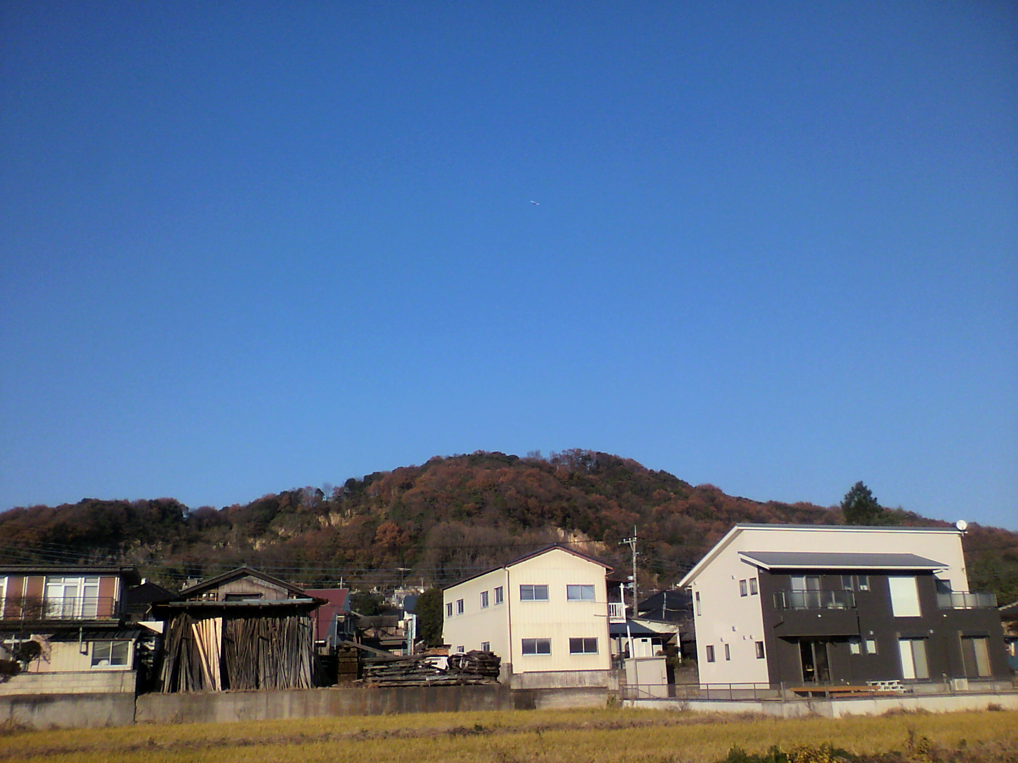 This is a mountain of Japan.